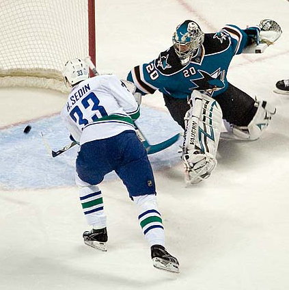 Vancouver Canucks forward Henrik Sedin scores against Evgeni Nabokov of the San Jose Sharks in 2007.